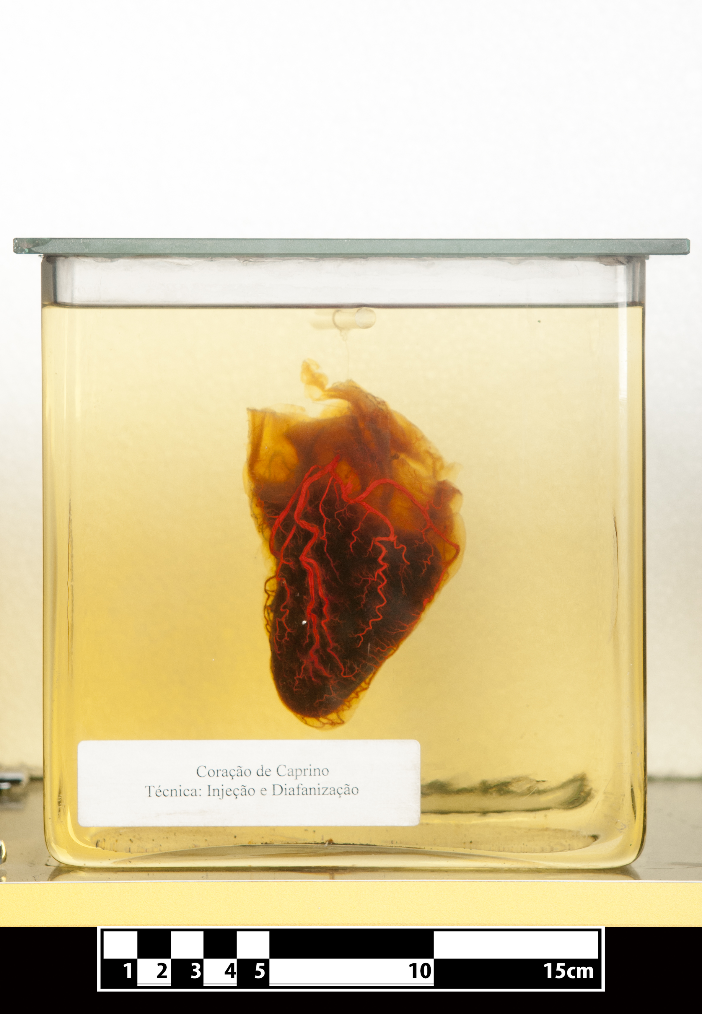 Goat heart. Capra aegagrus hircus Gelatin injection and Spalteholz diaphanization – specimen clarified for visualization of anatomical structures on display at the Museum of Veterinary Anatomy, FMVZ USP. Spalteholz diaphanization is a tissue clearing technique, described here. This file was published as the result of a partnership between the Museum of Veterinary Anatomy FMVZ USP, the RIDC NeuroMat and the Wikimedia Community User Group Brasil. This GLAM project is reported. Photography: Museum of Veterinary Anatomy FMVZ USP. Author: Wagner Souza e Silva.